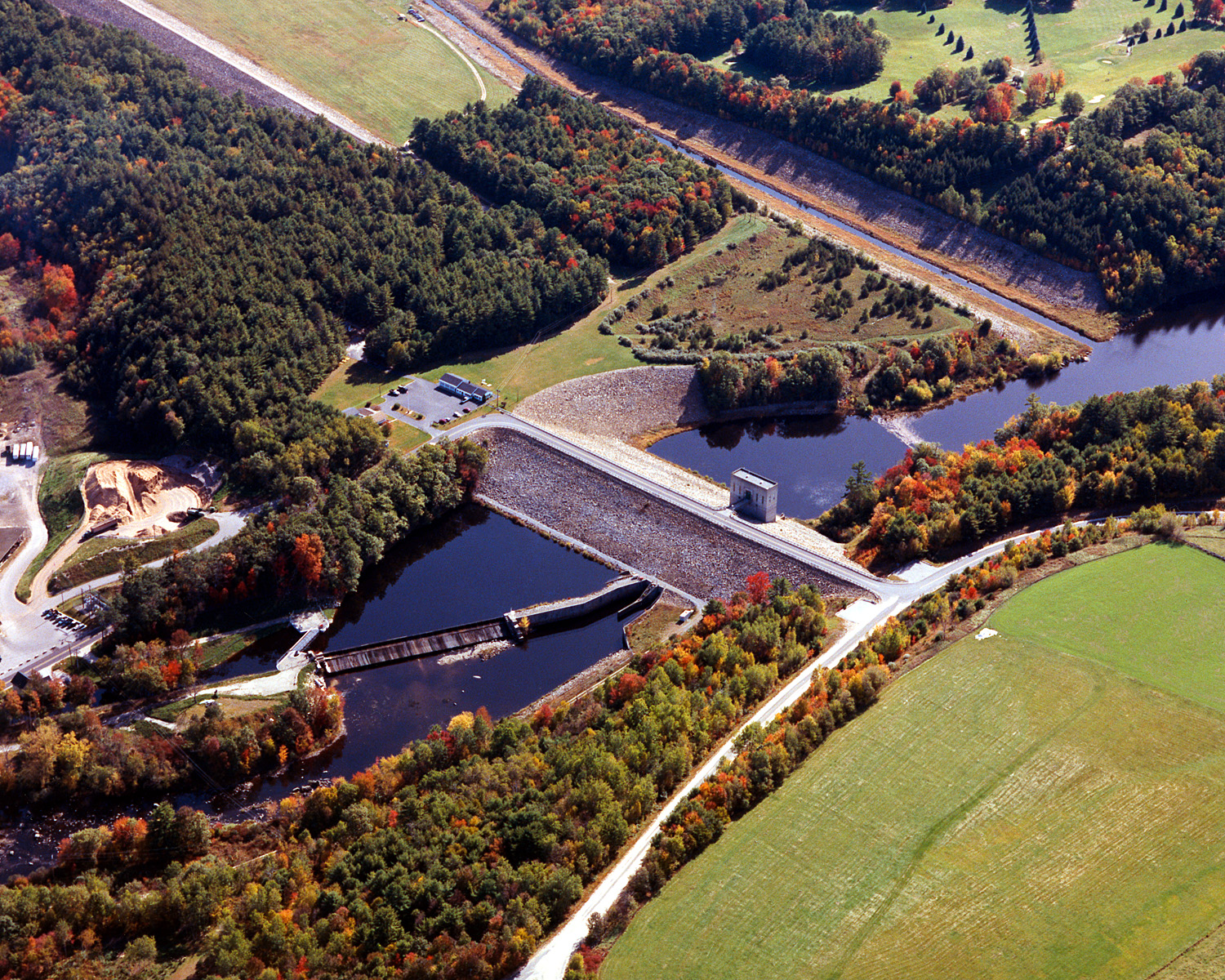 Hopkinton Dam on the Contoocook River in Merrimack County, New Hampshire, USA. The U.S. Army Corps of Engineers constructed the dam for flood control on the Contoocook River.